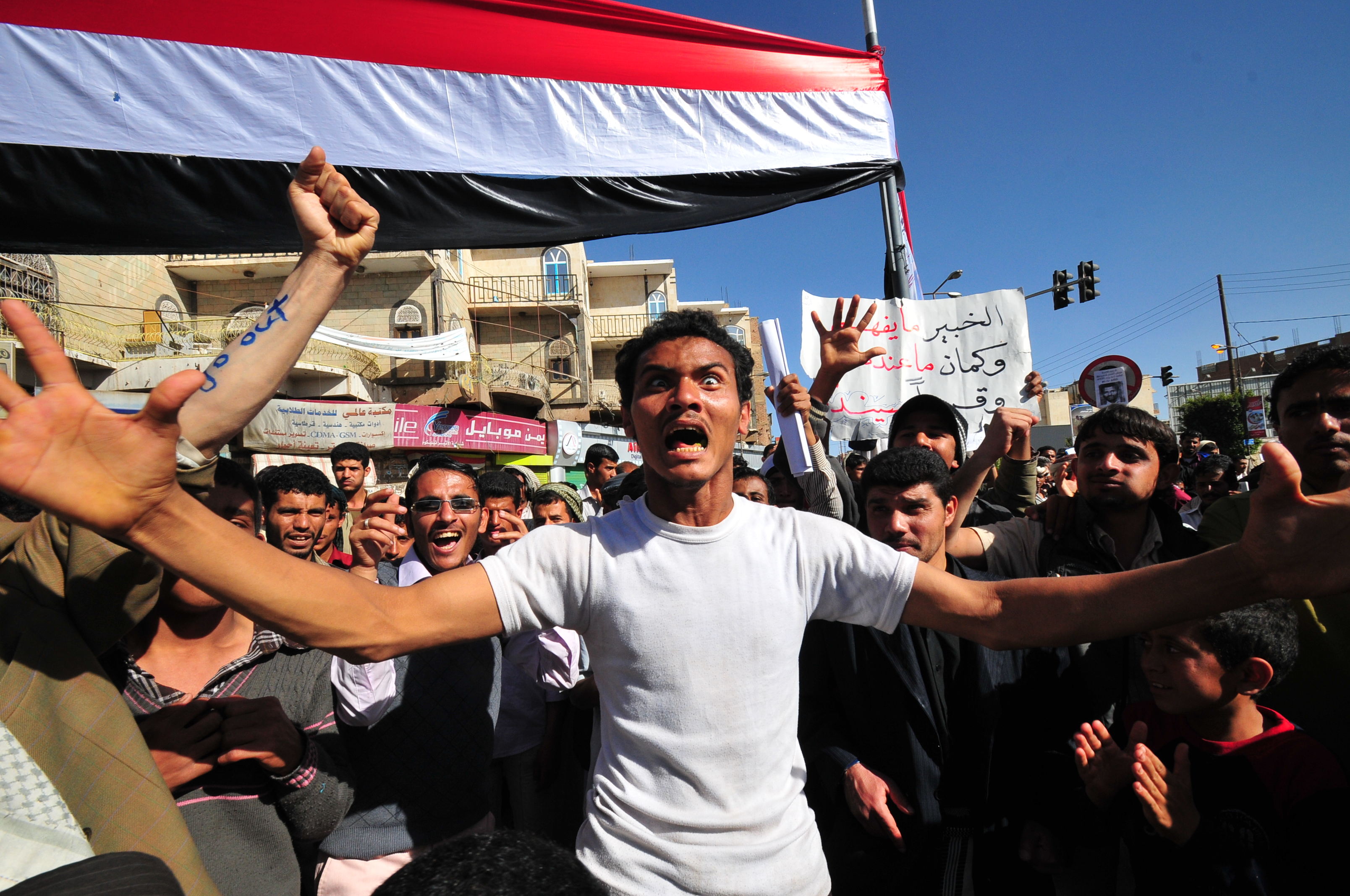 A protest during the 2011–2012 Yemeni revolution.